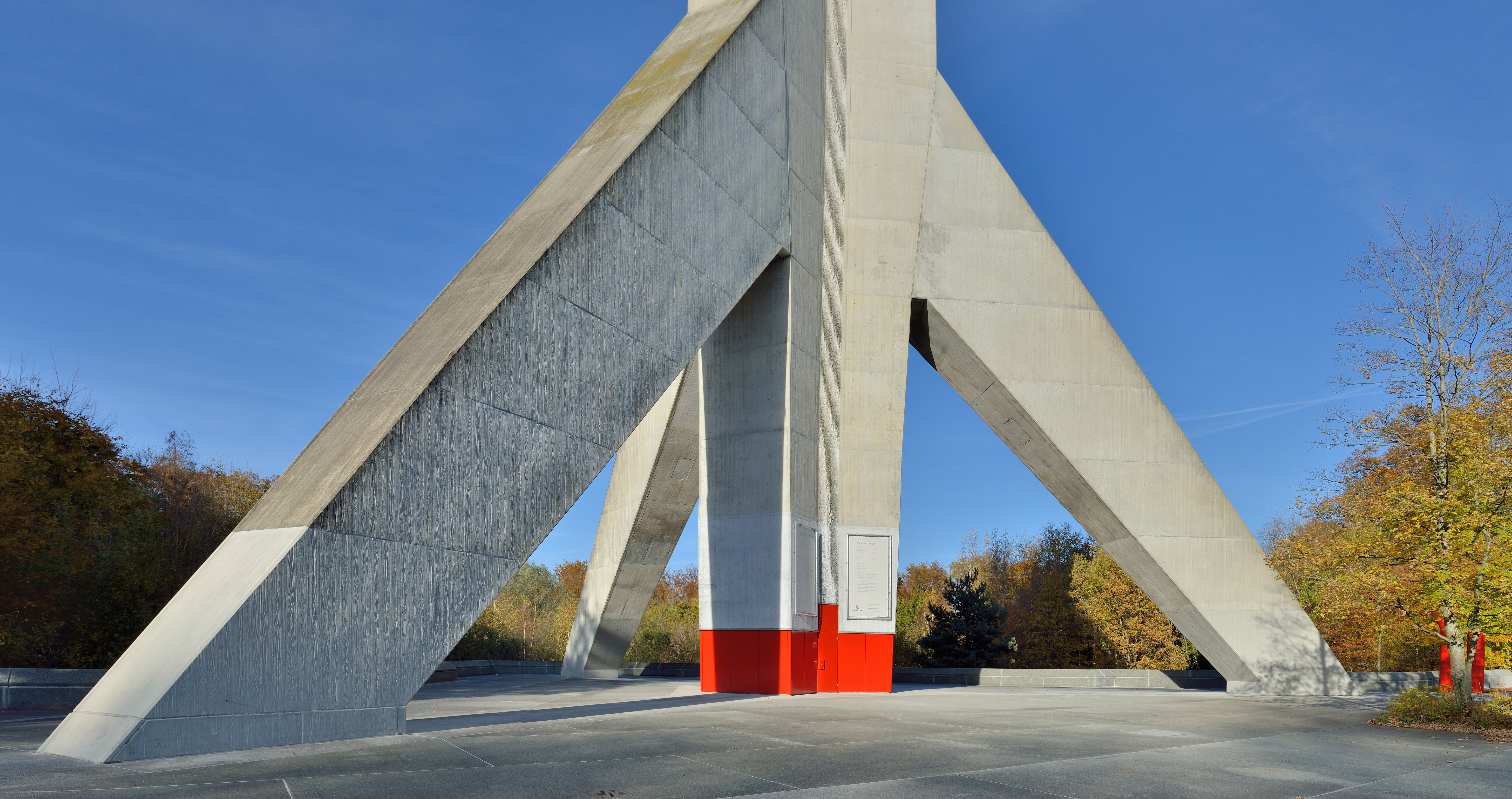 tower base tripod construction of TV Tower St. Chrischona, Switzerland